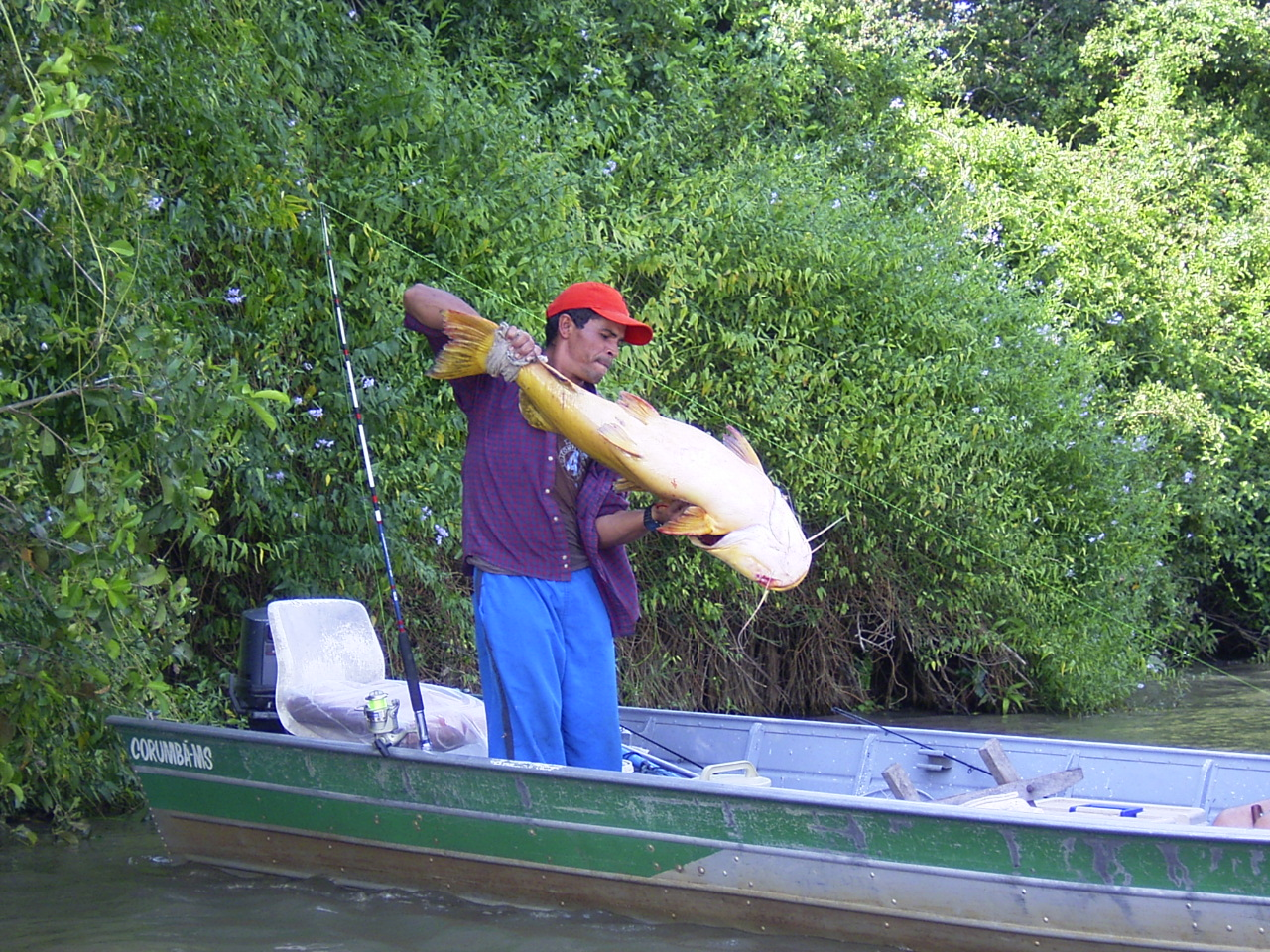 Fisherman with a big catfish in the Pantanal, Brazil